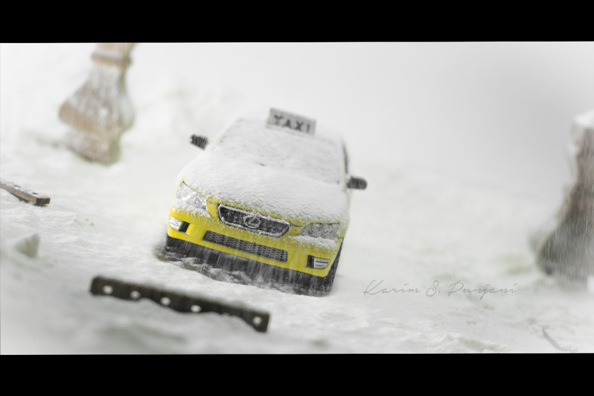 500px provided description: Concepts, Design & Paint Miniature Objects, Textures, Light, Art Directions and Executions all I can do myself. For Full Showreel, Click on: Follow me on Shutterstock goo.gl/du5tXW [#canada ,#frozen ,#city ,#winter ,#cold ,#nature ,#car ,#transport ,#motion ,#new york ,#close-up ,#symbol ,#care ,#family ,#snow ,#wood ,#toy ,#food ,#little ,#glass ,#ice ,#photography ,#paper ,#iceberg ,#desktop ,#no person ,#Street ,#Christmas ,#Tornado ,#Transportation]